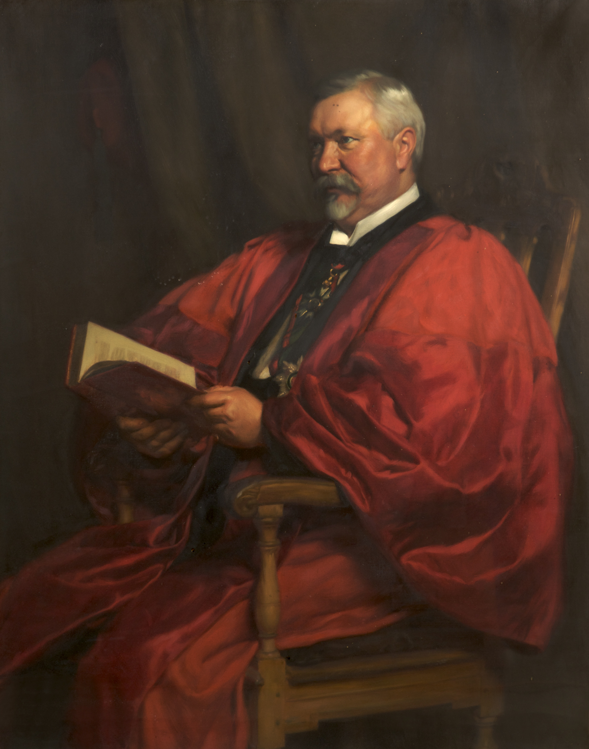 Portrait of Sir John Scott (1841–1904), British colonial judge.